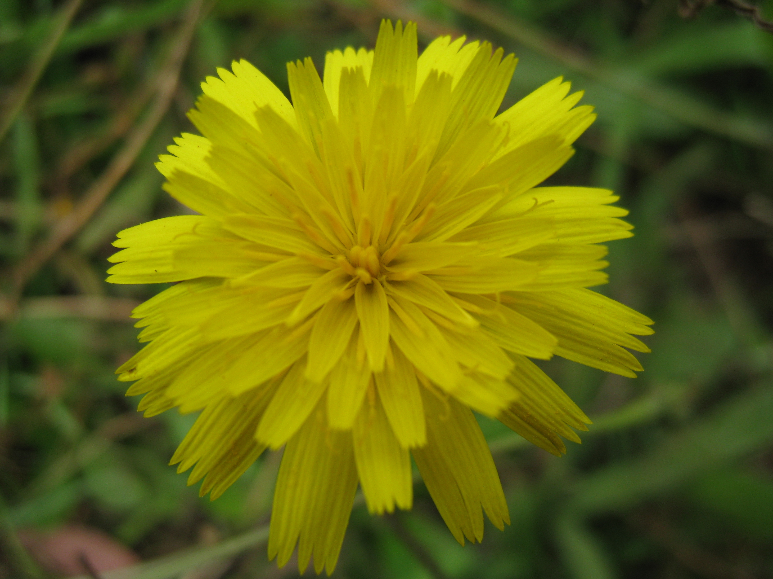 Catsear or Flatweed (Hypochaeris radicata). Dargo VIC Australia, January 2011.